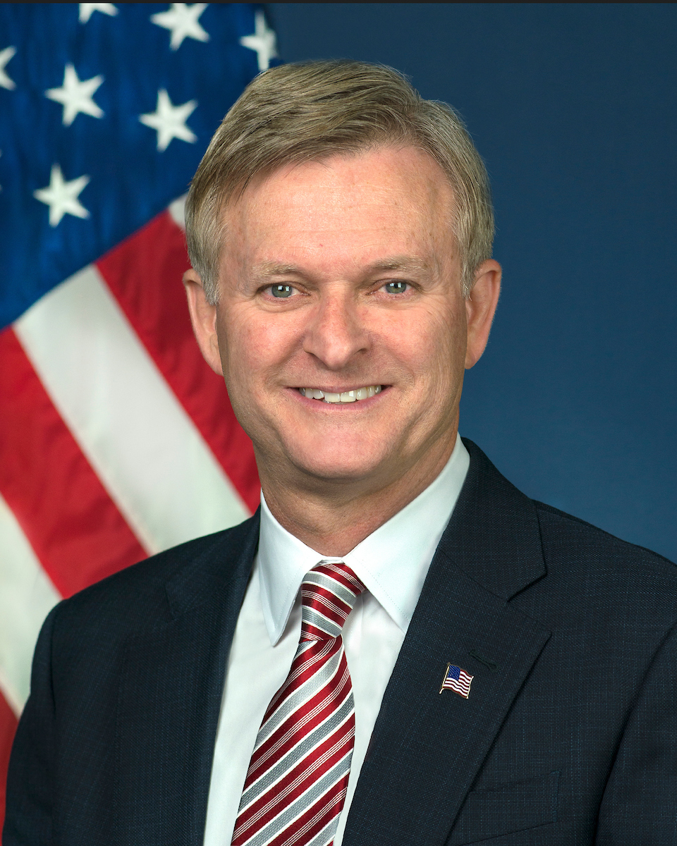 Steven G. Bradbury, general counsel US Dept. of Transportation official photo